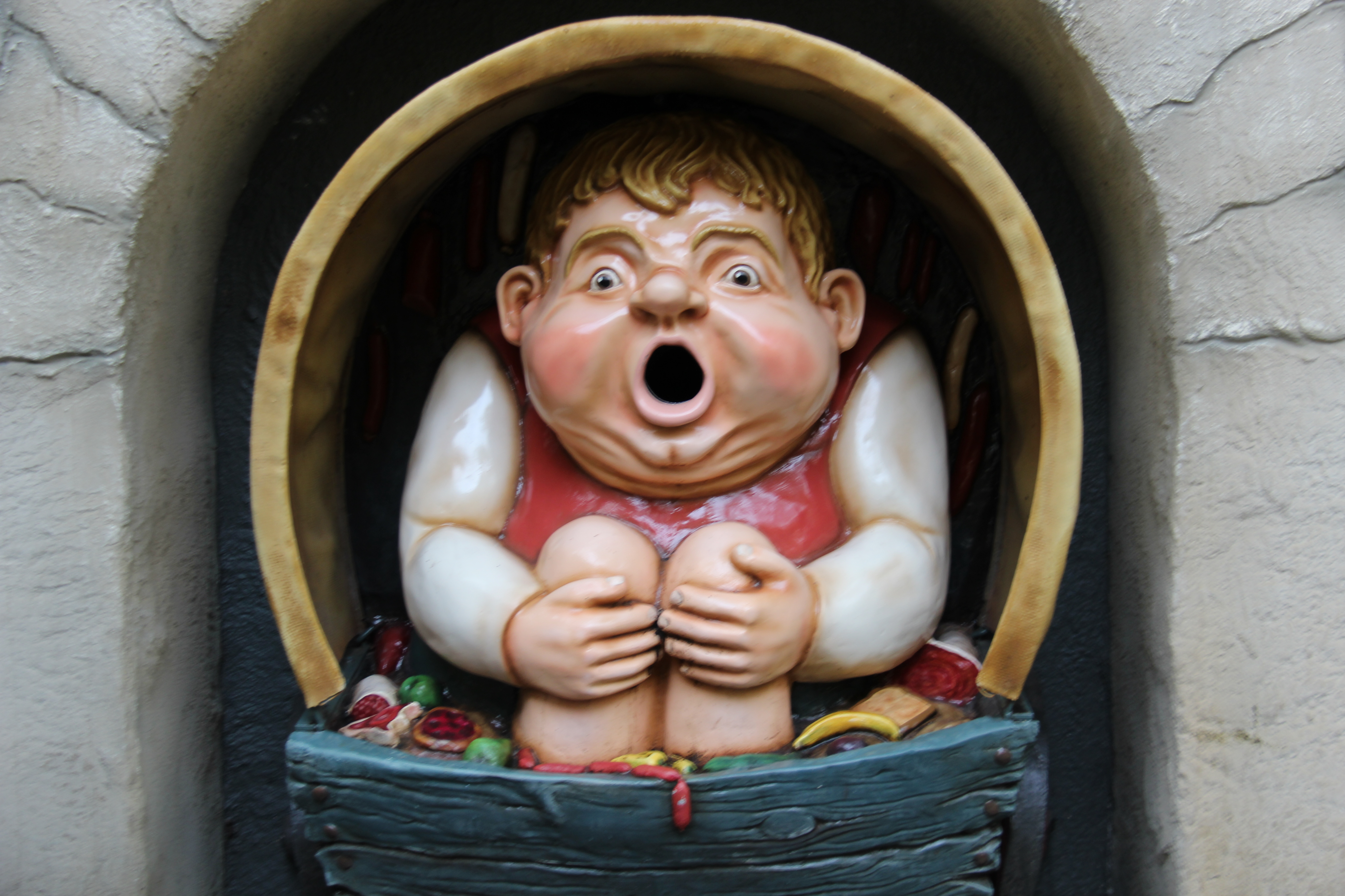 Holle Bolle Gijs, Efteling, Kaatsheuvel, The Netherlands Picture taken by Hullie - July 2006